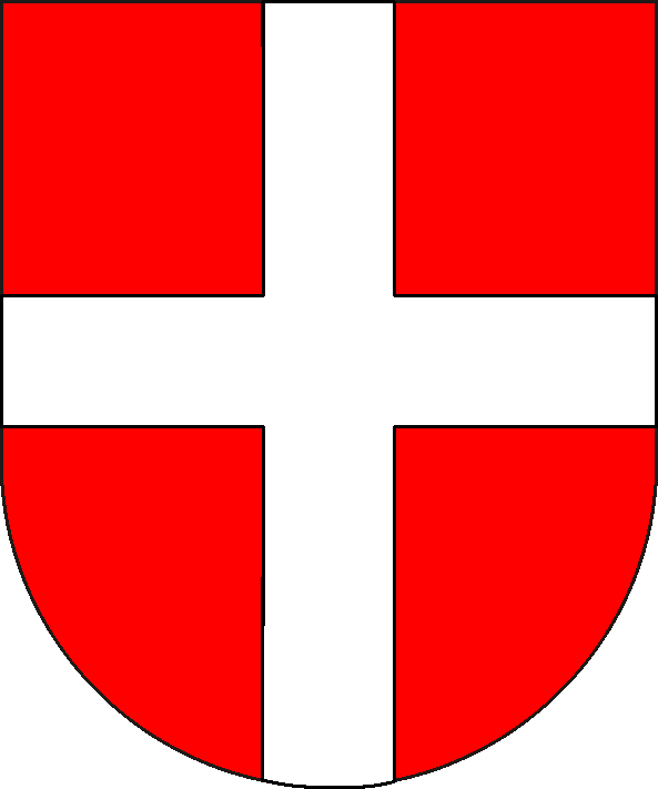 coat of arms of the bishopric of Utrecht